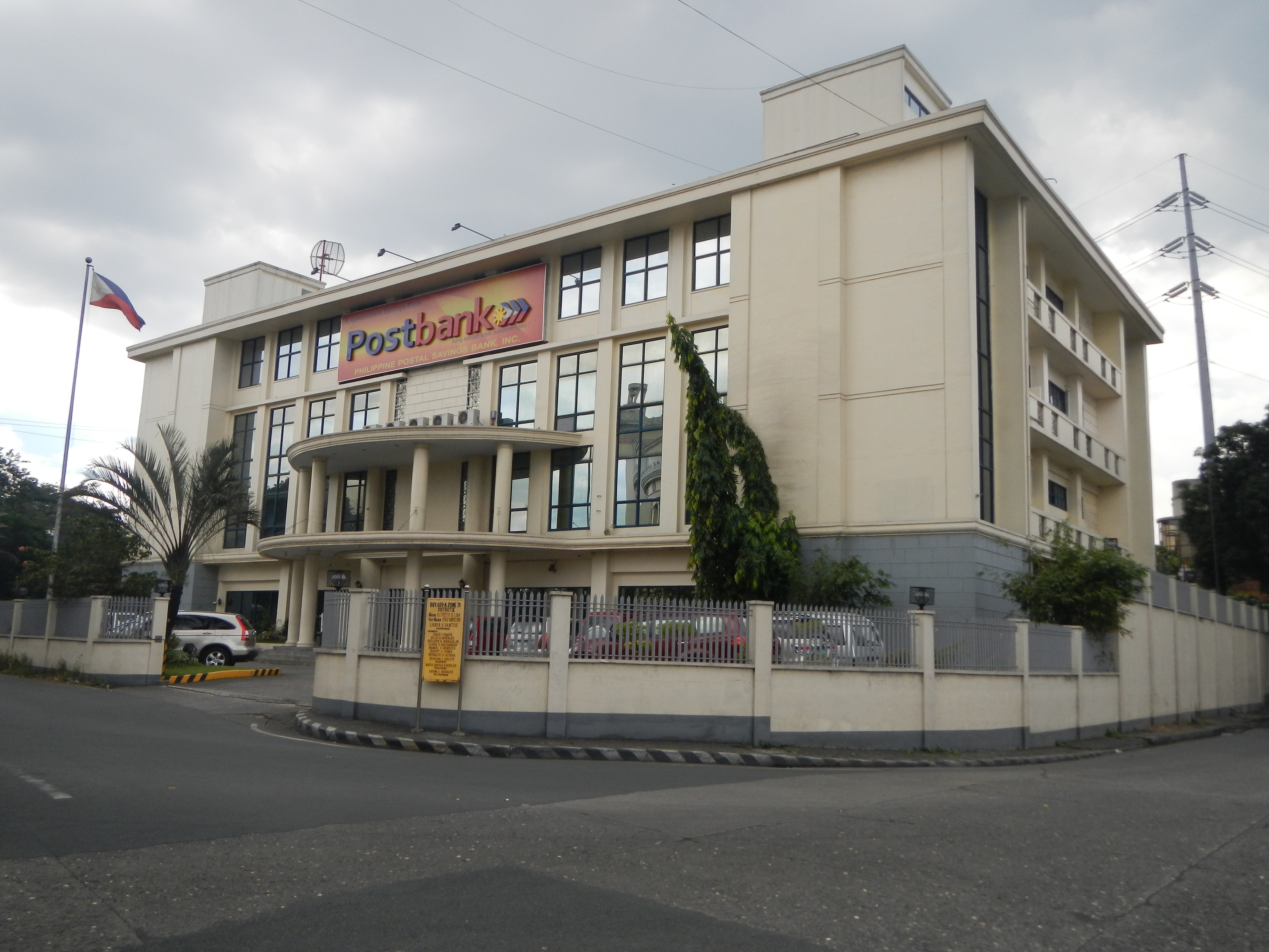 Upload Wizard photos (general description of the landmarks, angle by angle photography of the city, town, rivers, bridges and interesting points) of - Manila Chinatown, Chinese New Year 2014 Binondo Church, Basilica Minore of San Lorenzo Ruiz, in Binondo, Manila and the intersection, Plaza San Lorenzo Ruiz and the Metropolitan Bank and Trust Company, Wellington building, where it originally started and Philippine Postal Savings Bank[1] Postbank Brgy. 659-A Zone 71 District V Liwasang Bonifacio 1000, Manila Philippine Postal Corporation[2] - [3] Parián [4] the original location is now called Liwasang Bonifacio Plaza Lawton beside the Manila Central Post Office[5] Ma. Josefina M. Dela Cruz, Postmaster General and Chief Executive Officer Cesar Sarino, Chairman of the Board of Directors.